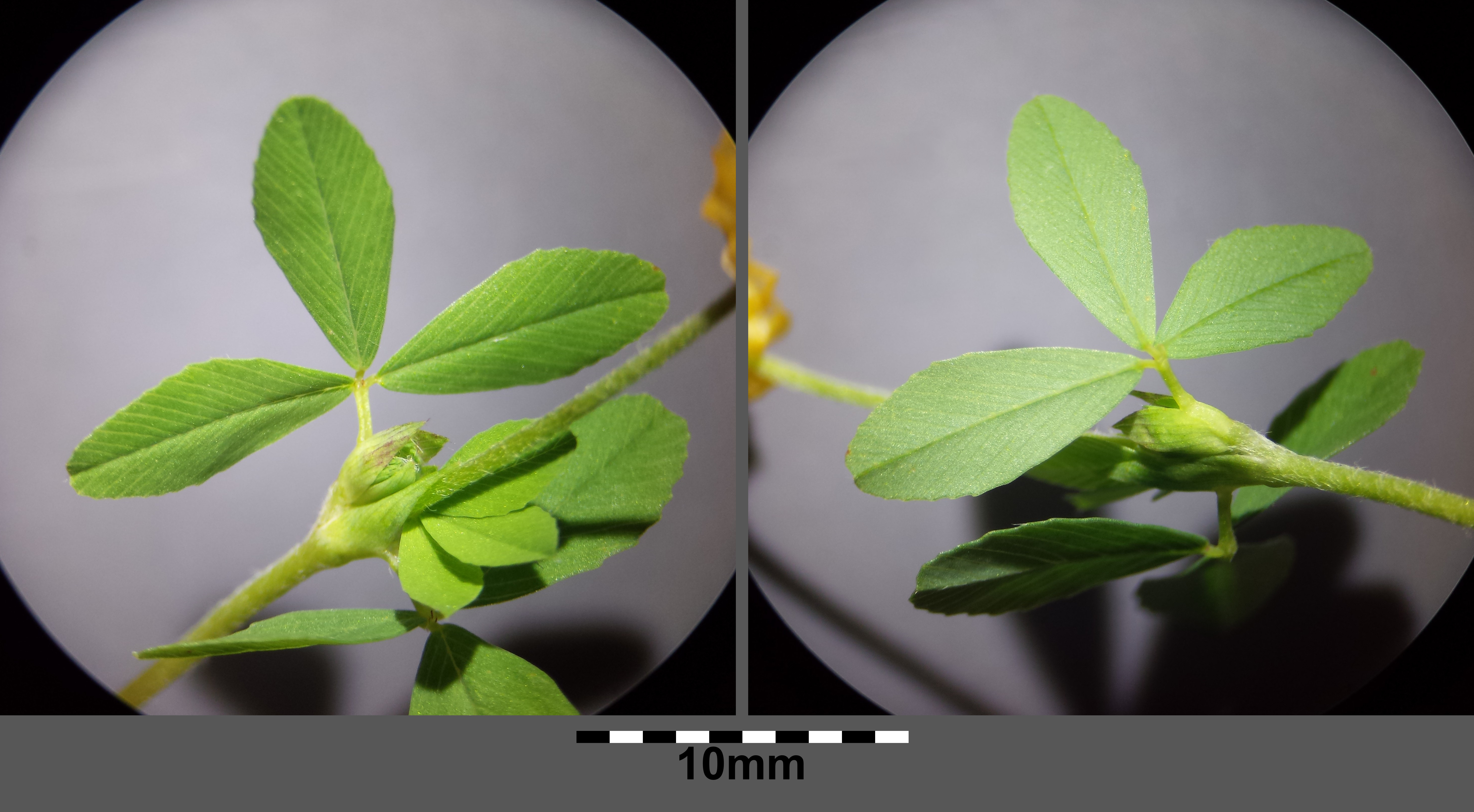 Stipe with leaves Taxonym: Trifolium aureum ss Fischer et al. EfÖLS 2008 ISBN 978-3-85474-187-9 Location: near Altmelon, district Zwettl, Lower Austria - ca. 900 m a.s.l. Habitat: border of a wood